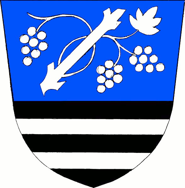 Municipal coat of arms of Dolní Bojanovice village, Hodonín District, Czech Republic.